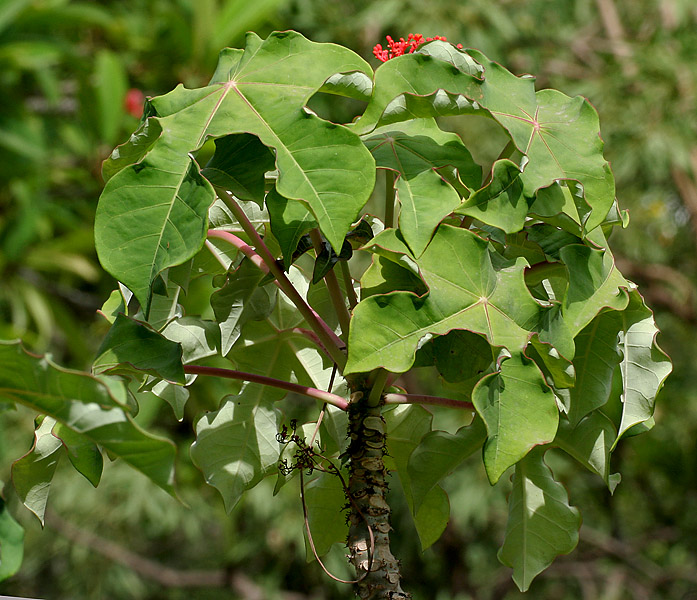 Buddha belly plant, gout plant, purging-nut, Guatemalan rhubarb, Tartogo or goutystalk nettlespurge Jatropha podagrica at Lotus Pond, Hyderabad, India.